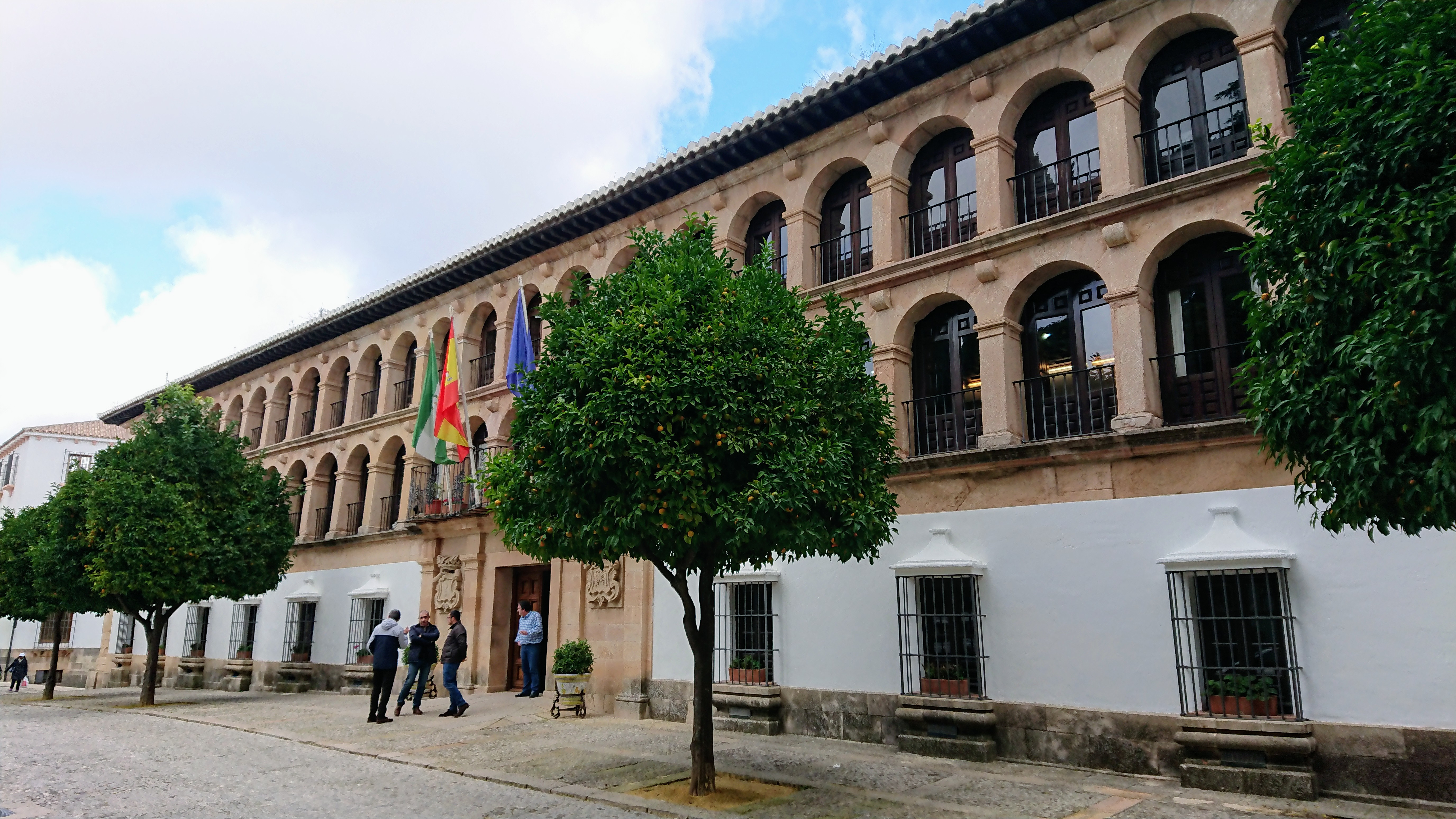 City hall, Ronda, Spain